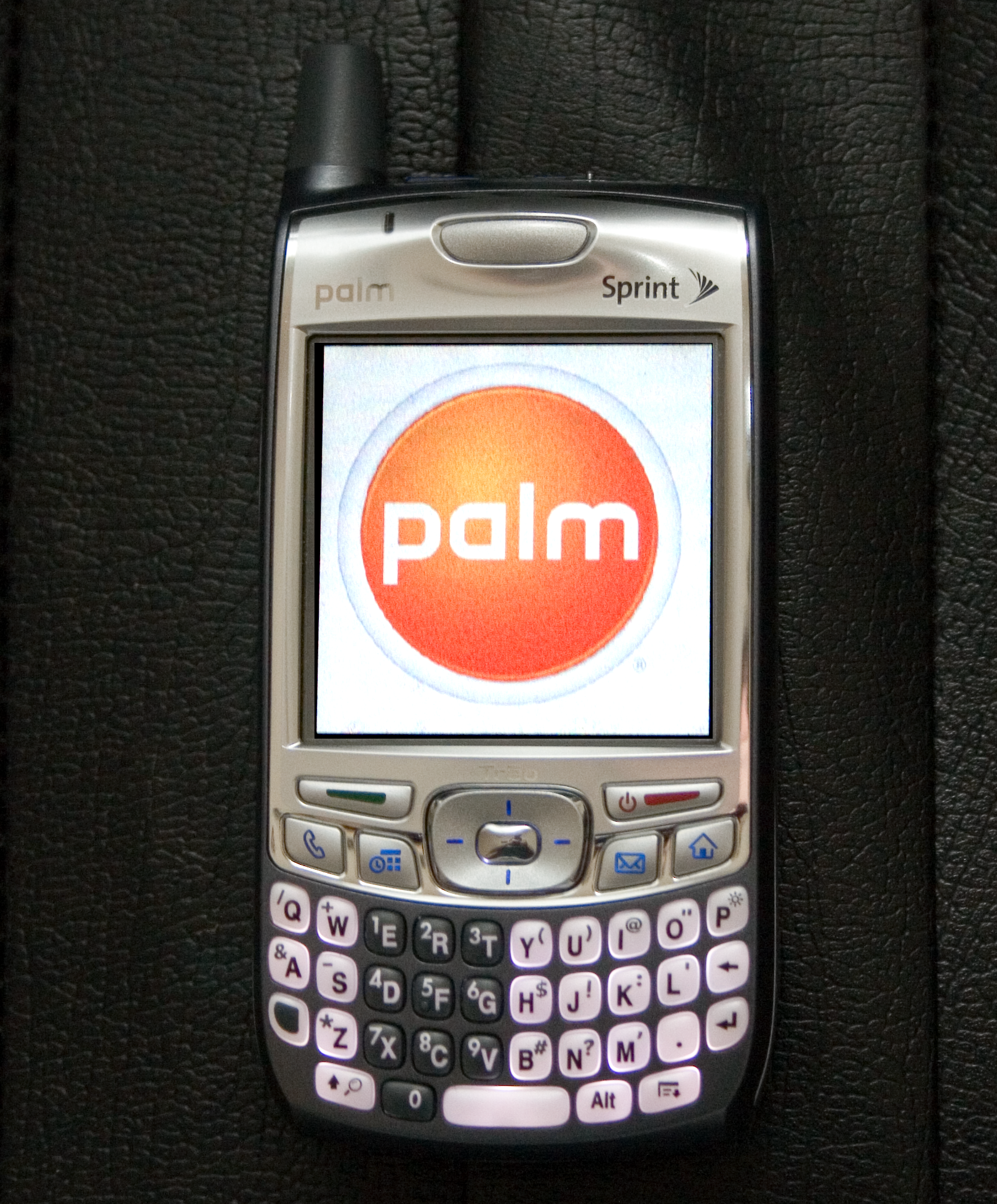 Photograph of a Palm Treo 700p CDMA Smartphone, displaying the Palm, Inc. Logo. This particular handset is for use on the Sprint CDMA network in the USA.